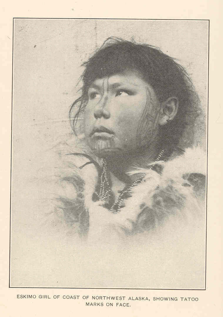 Eskimo girl of coast of Northwest Alaska, showing tatoo marks on face Subject: Inuit--Alaska, Tattooing--Alaska, Tribal tattoos--Alaska Tag: People